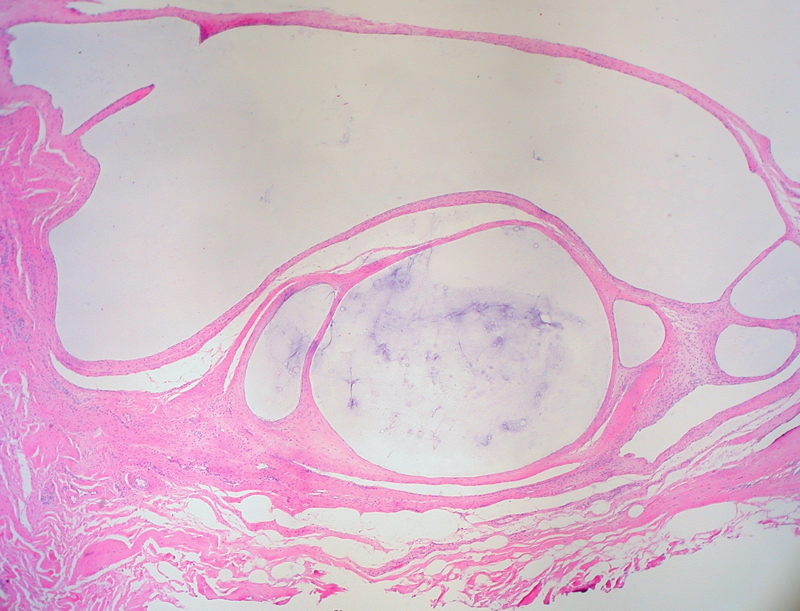 Ganglion Cyst, Hand We see lots of these, but this one is a particulary good example, with multiple cystic chambers containing glairy materal. The walls are composed of bland fibrous tissue with no specialized lining.